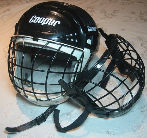 Cooper XL7 hockey helmet and Cooper XL7-FG hockey helmet faceguard, manufactured in Canada by Cooper Canada Ltd. circa 1984